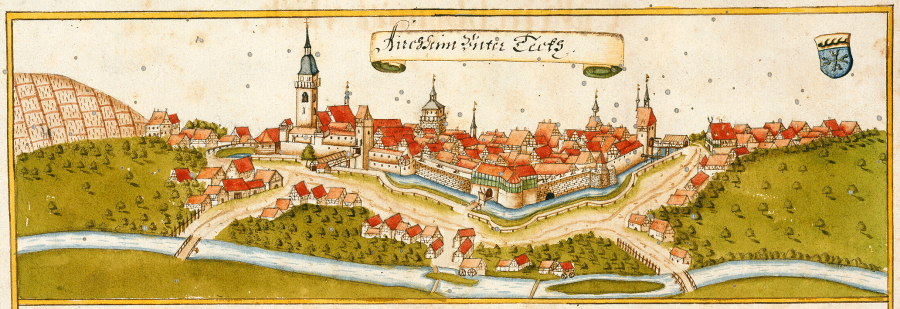 View of Kirchheim unter Teck from the forest register books created by Andreas Kieser